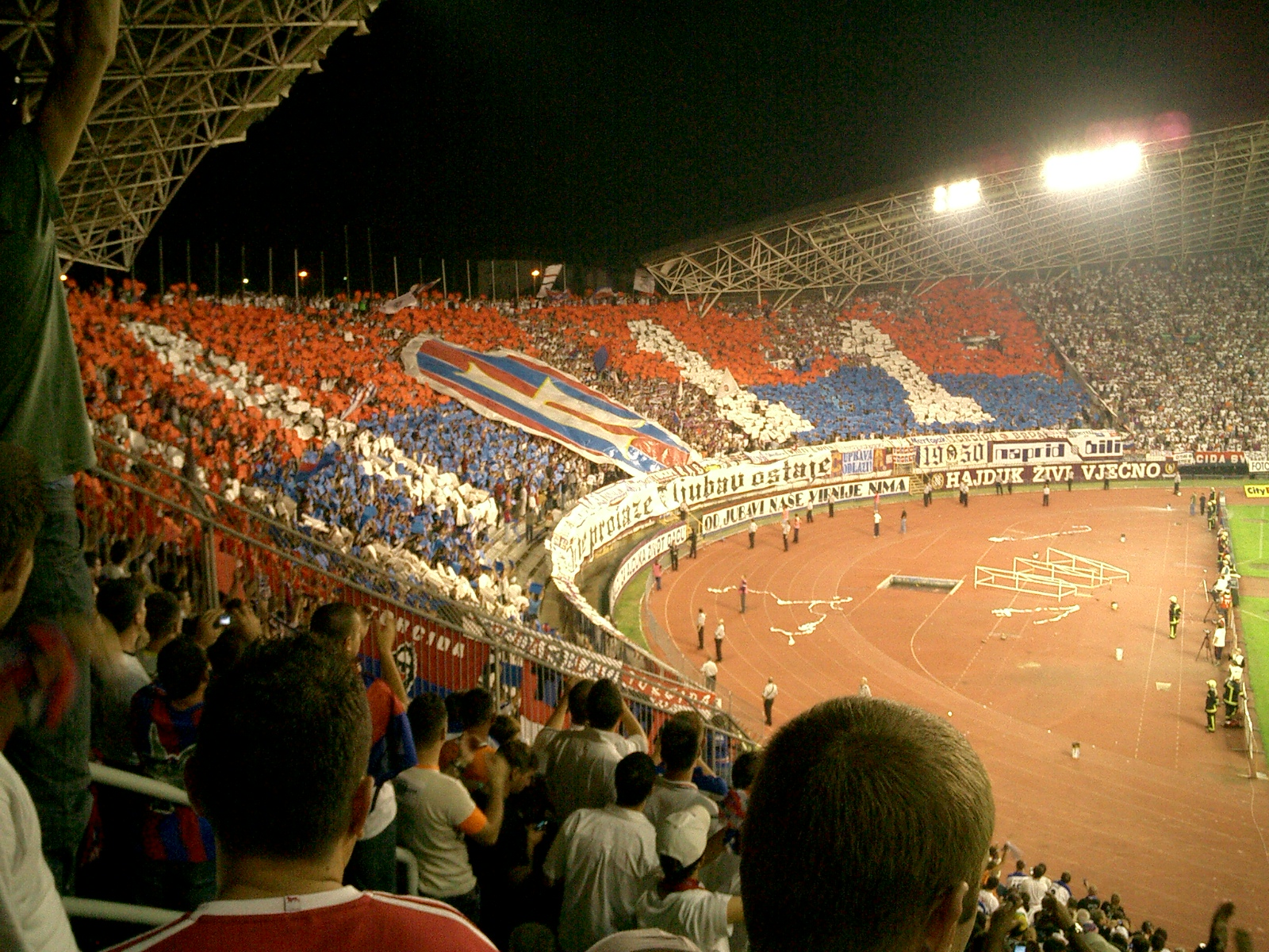 Torcida decorating the north stand of Poljud Beauty. Image taken during the Hajduk Split - Dinamo Zagreb derby.